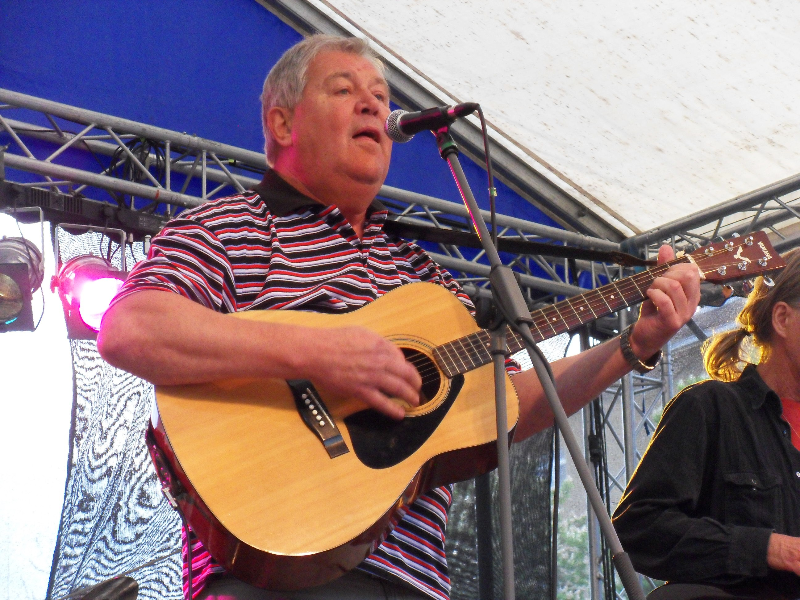 Michal Polák, vocalist of Czech rock band Synkopy 61, Brno, Czech Republic